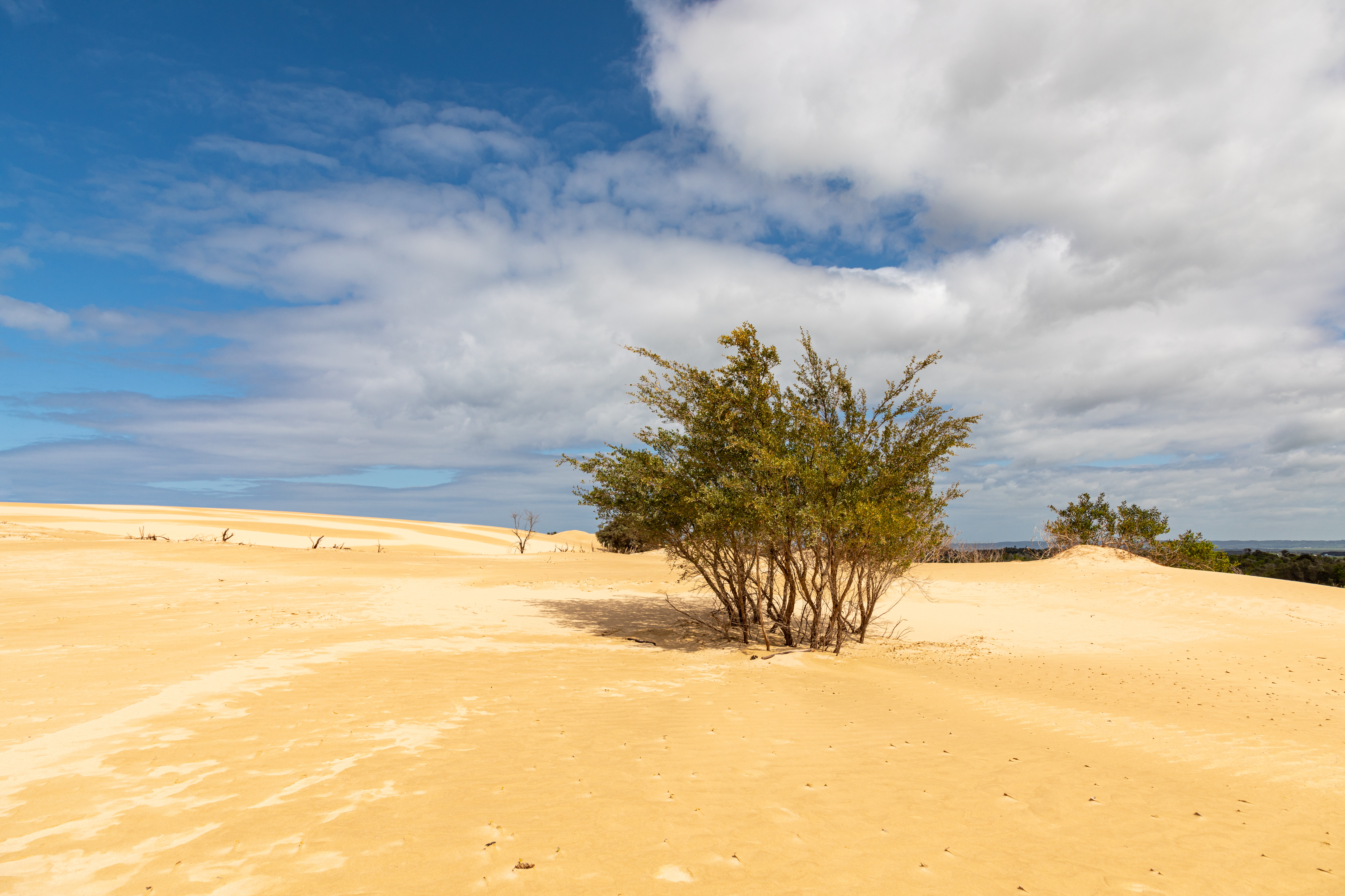 Sand dune “Big Drift” in Wilsons Promontory National Park, Victoria, Australia